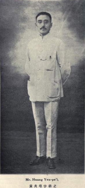 Huang Yanpei, Renzhi (1878 - 1965)